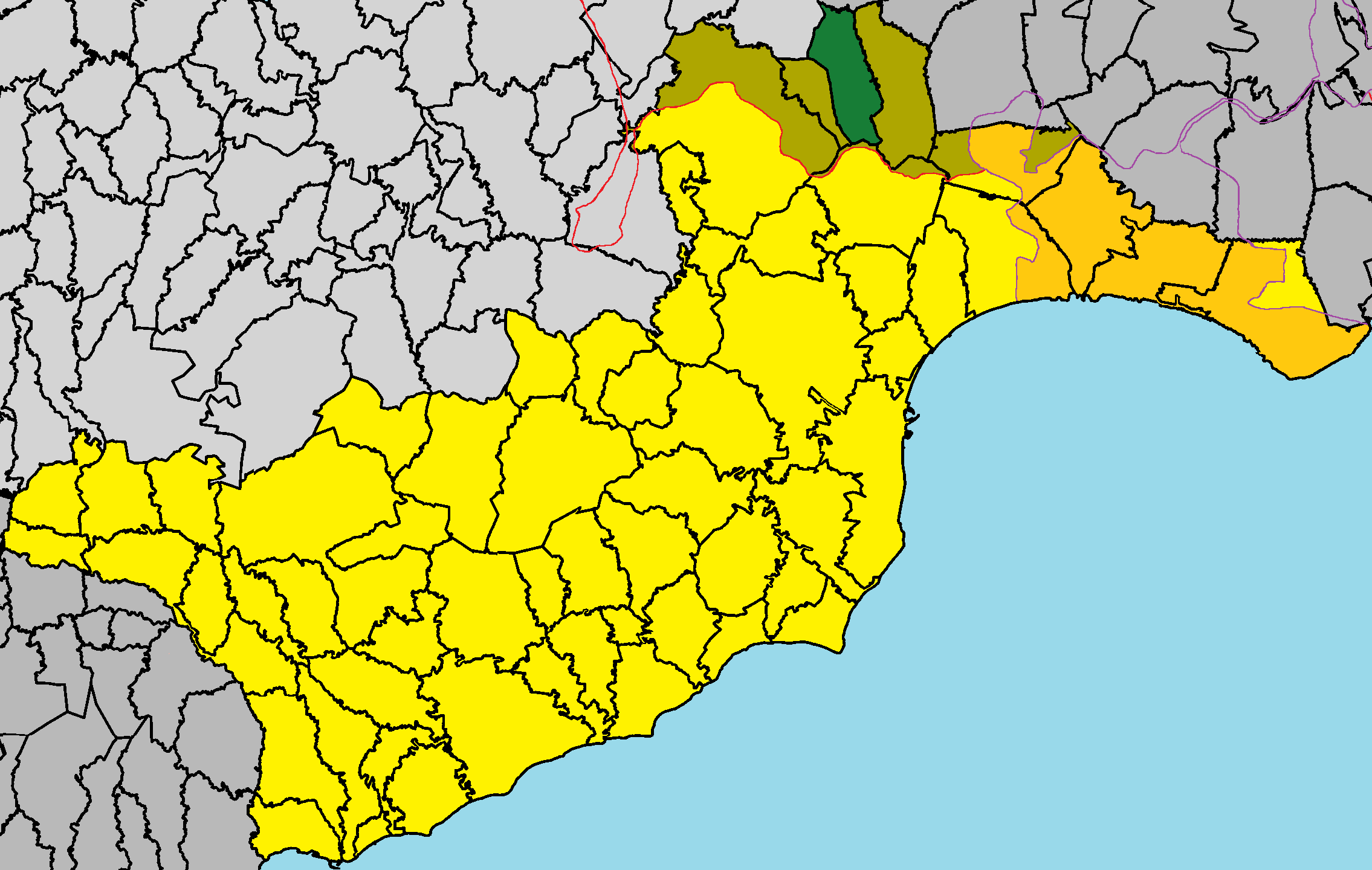 Tremetousia in Larnaca District (de jure).